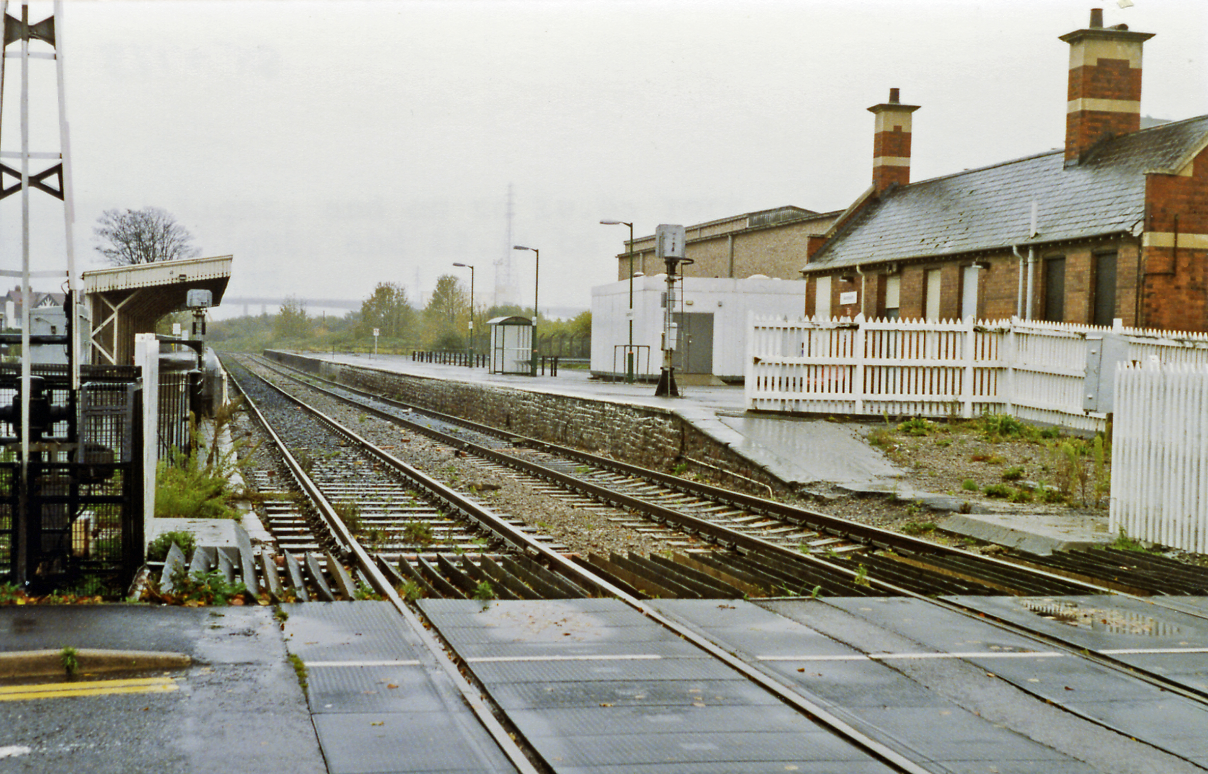 Avonmouth station, 1992. View SE, towards Bristol: ex-GW (& Midland Joint from Clifton Down) Bristol Temple Meads - St Andrews Road lines, via Clifton Down (also via Filton Junction until 23/11/64), and to Severn Beach (Pilning High Level until 25/7/68). (Until 31/3/41 LMS trains also came from Bath (Queen Square) via Kingswood Junction). Now much degraded, it was called 'Avonmouth Dock' until 20/6/66.